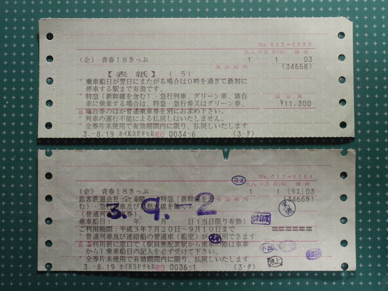 Japanese Train Ticket (Youth-18 Ticket) at 1993 summer